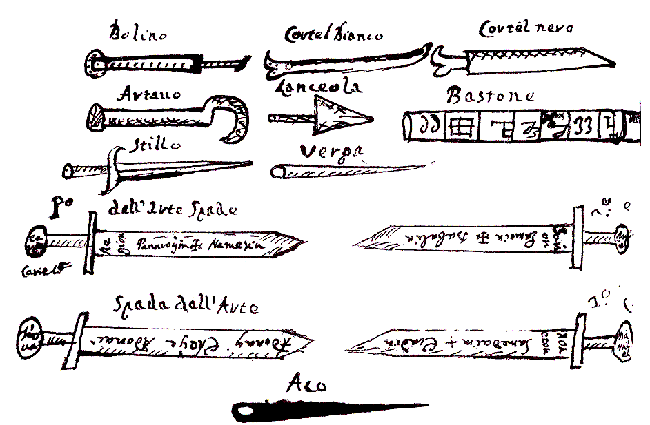 Drawings of tools used in ritual magic.